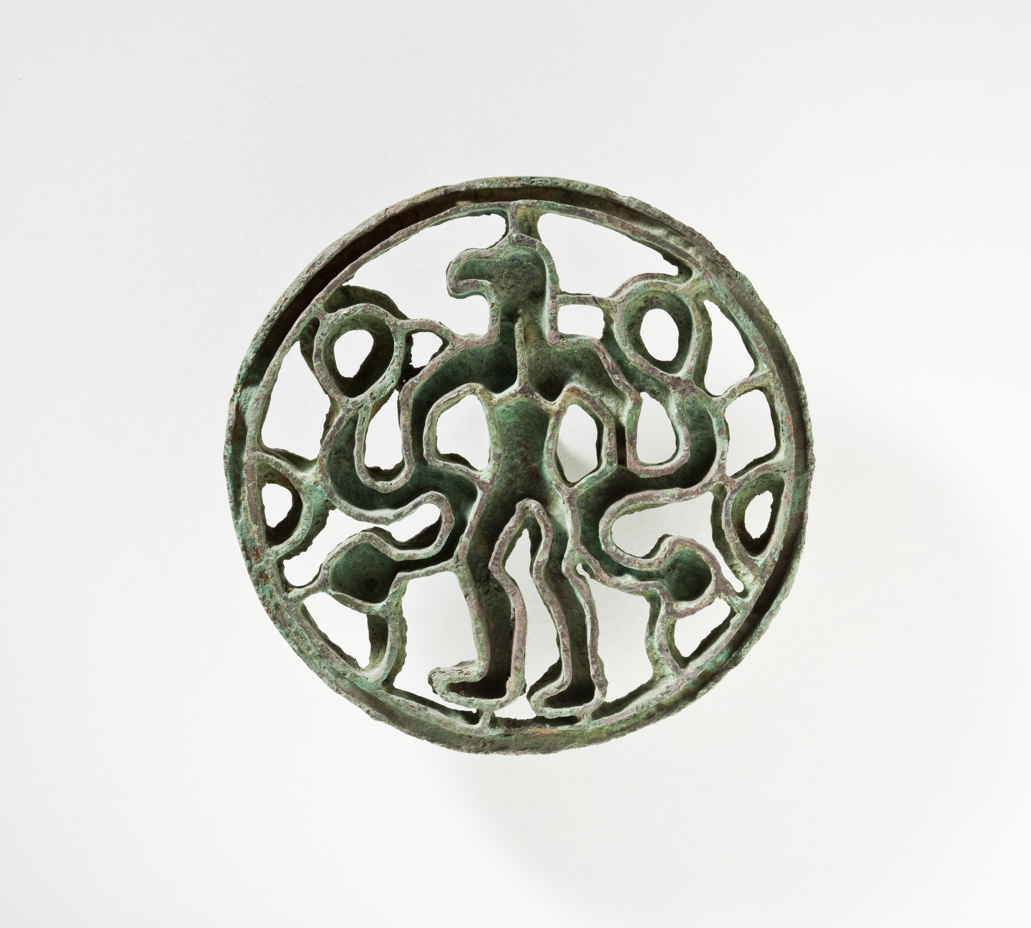 Northern Afghanistan, 2000-1500 B.C. Tools and Equipment; seals Bronze 2 7/8 in. (7.30 cm) Shinji Shumeikai Acquisition Fund (AC1995.5.6) Art of the Ancient Near East Currently on public view